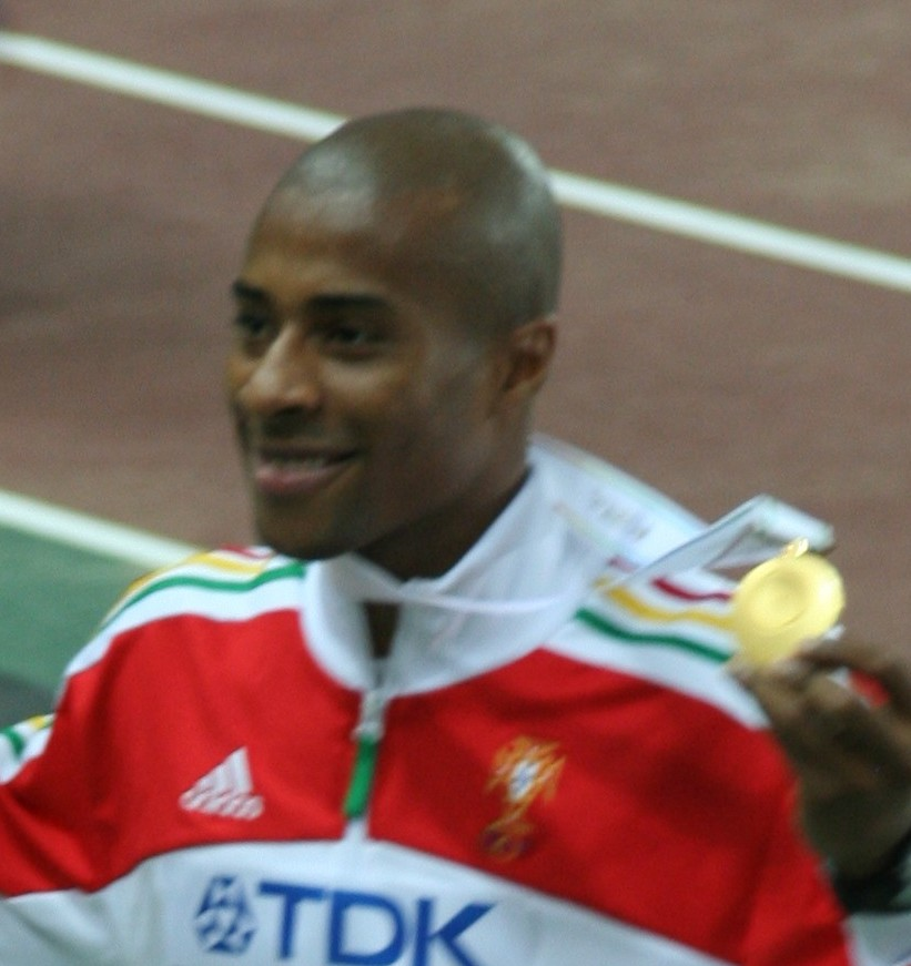 Cropped from Image:Osaka07 D3A Nelson Evora - 1.jpg